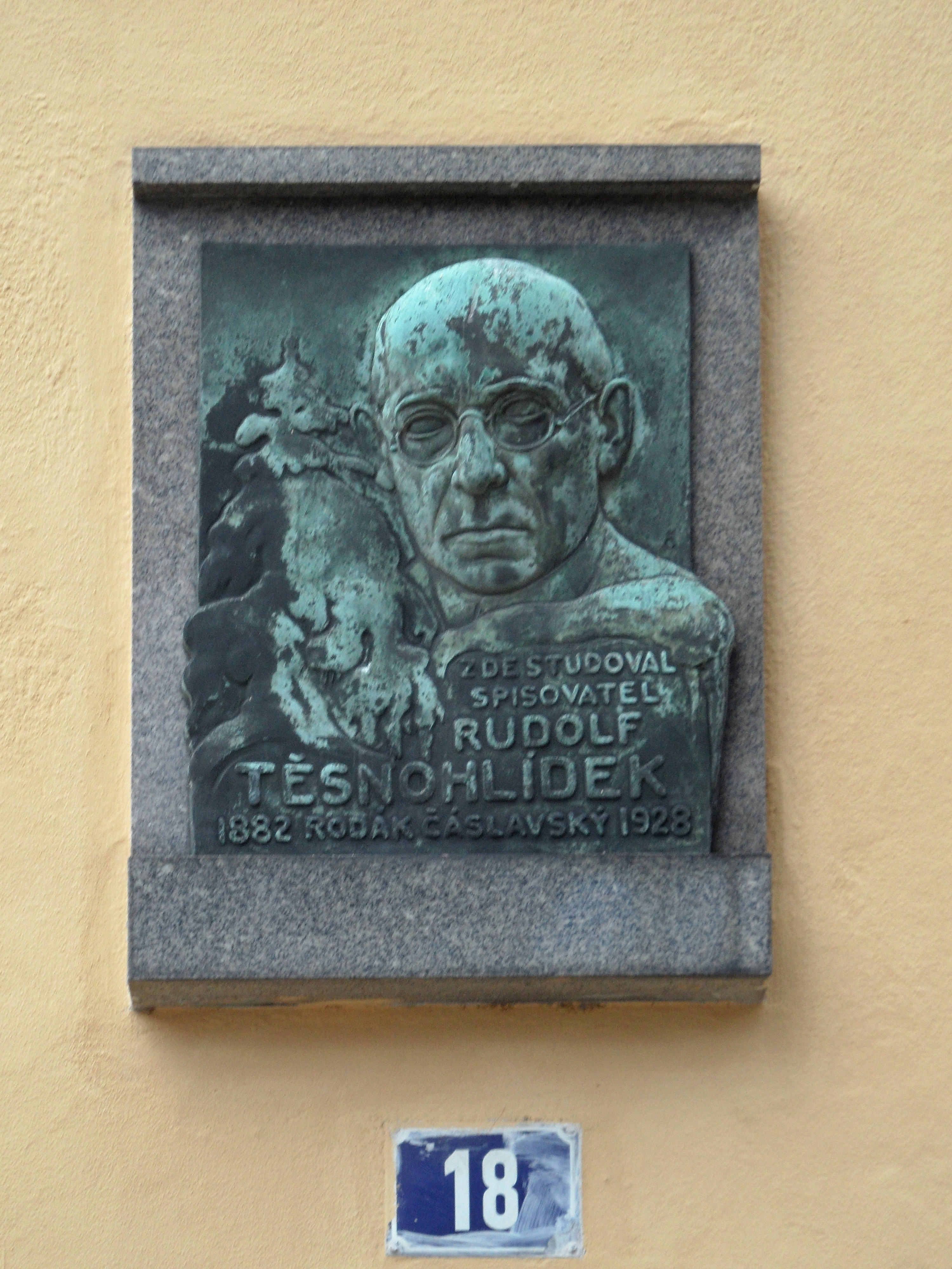 Čáslav, journalist and writer Rudolf Těsnohlídek: Memorial Plaque (gymnasium, Masarykova 248/24). Kutná Hora District, the Czech Republic.